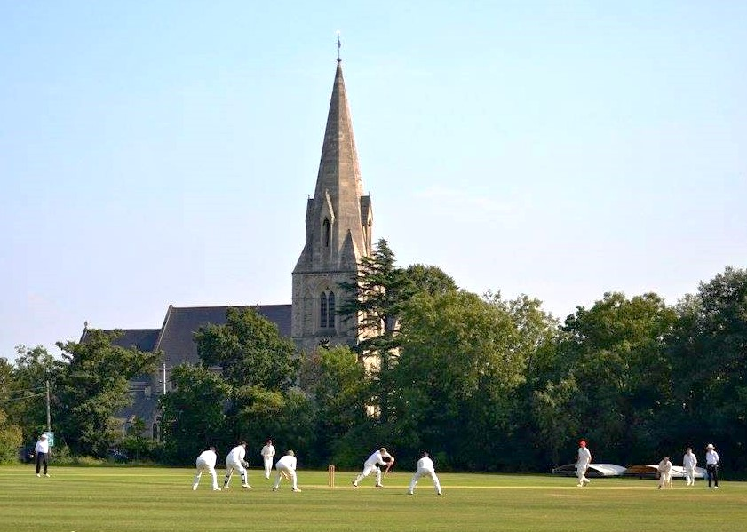 Christ Church Southgate from the Walker Cricket Ground - taken during the Church Times Cricket Cup Final 2014